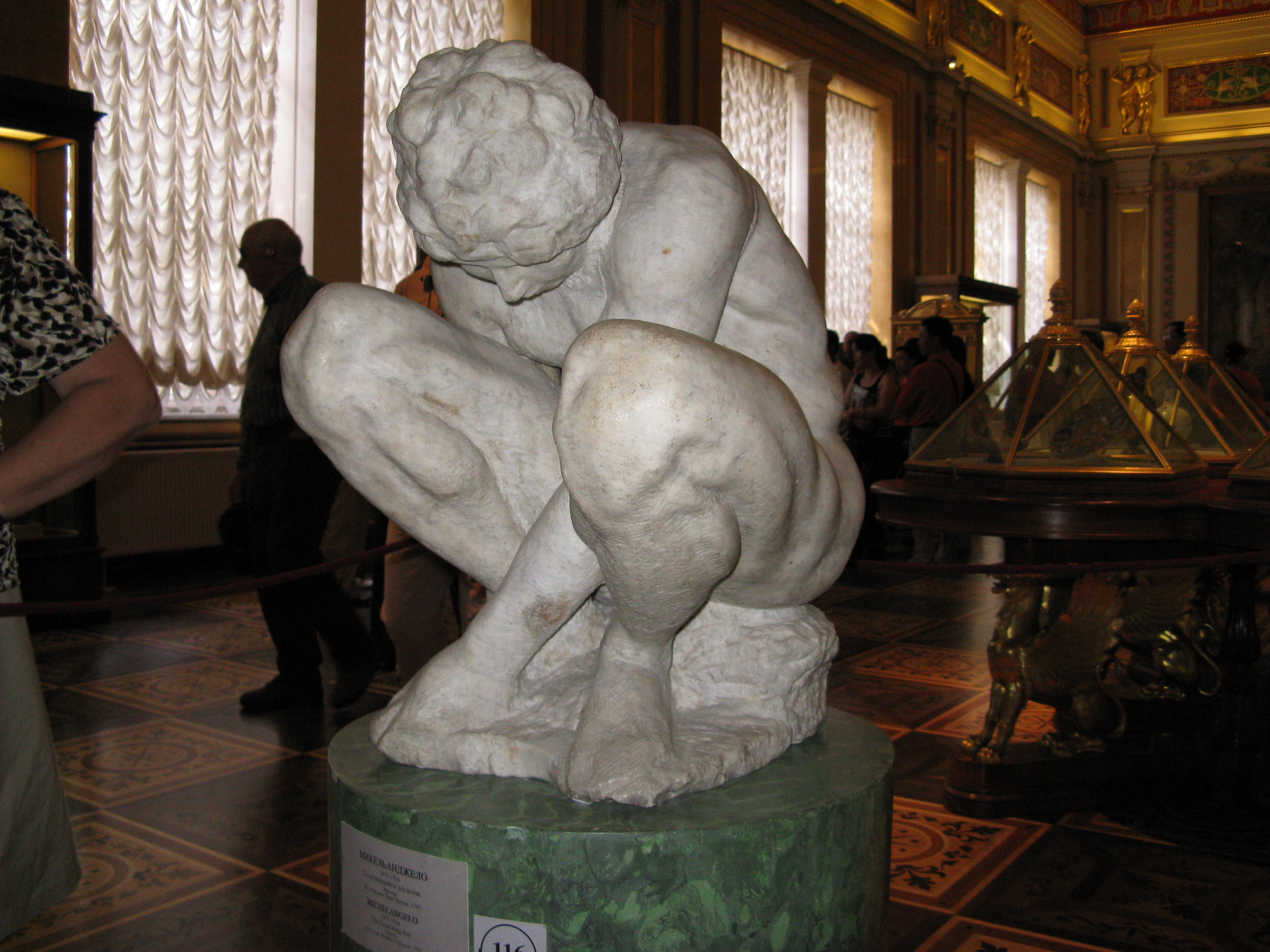 Crouching Boy by Michelangelo Buonarroti at the Hermitage